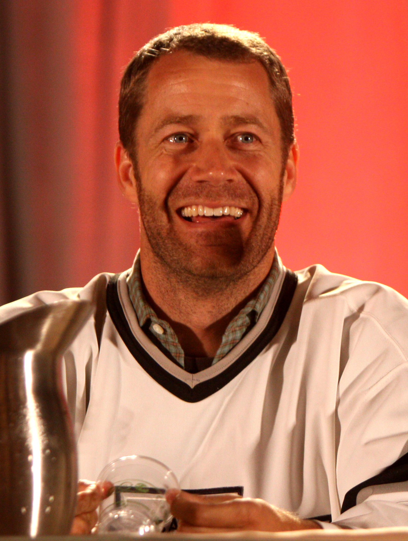 Colin Ferguson at the 2012 Phoenix Comicon in Phoenix, Arizona.